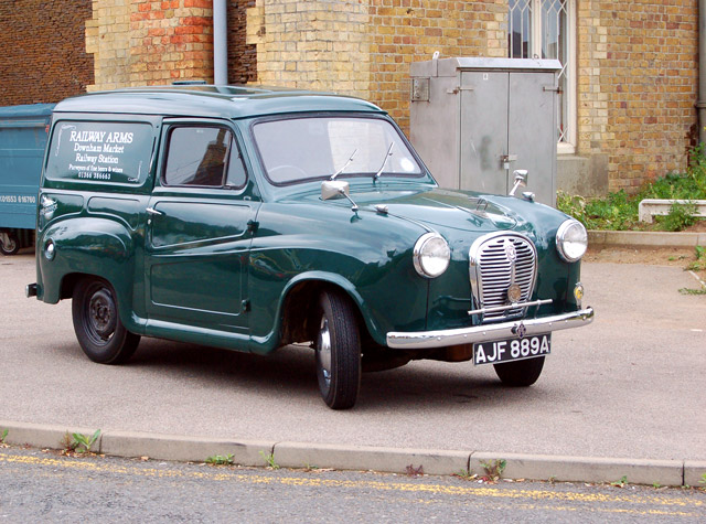 Vintage Austin A30 van outside the 'Railway Arms' at Downham Market station